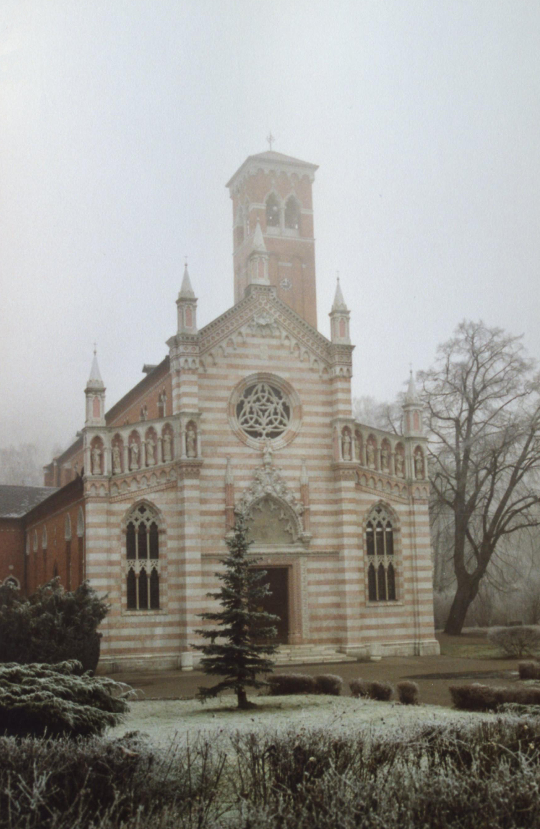 This image shows the "Church of Immaculate Conception" in Dubí in the Ore Mountains, Czech Republic. The image was taken on a foggy winter-day.